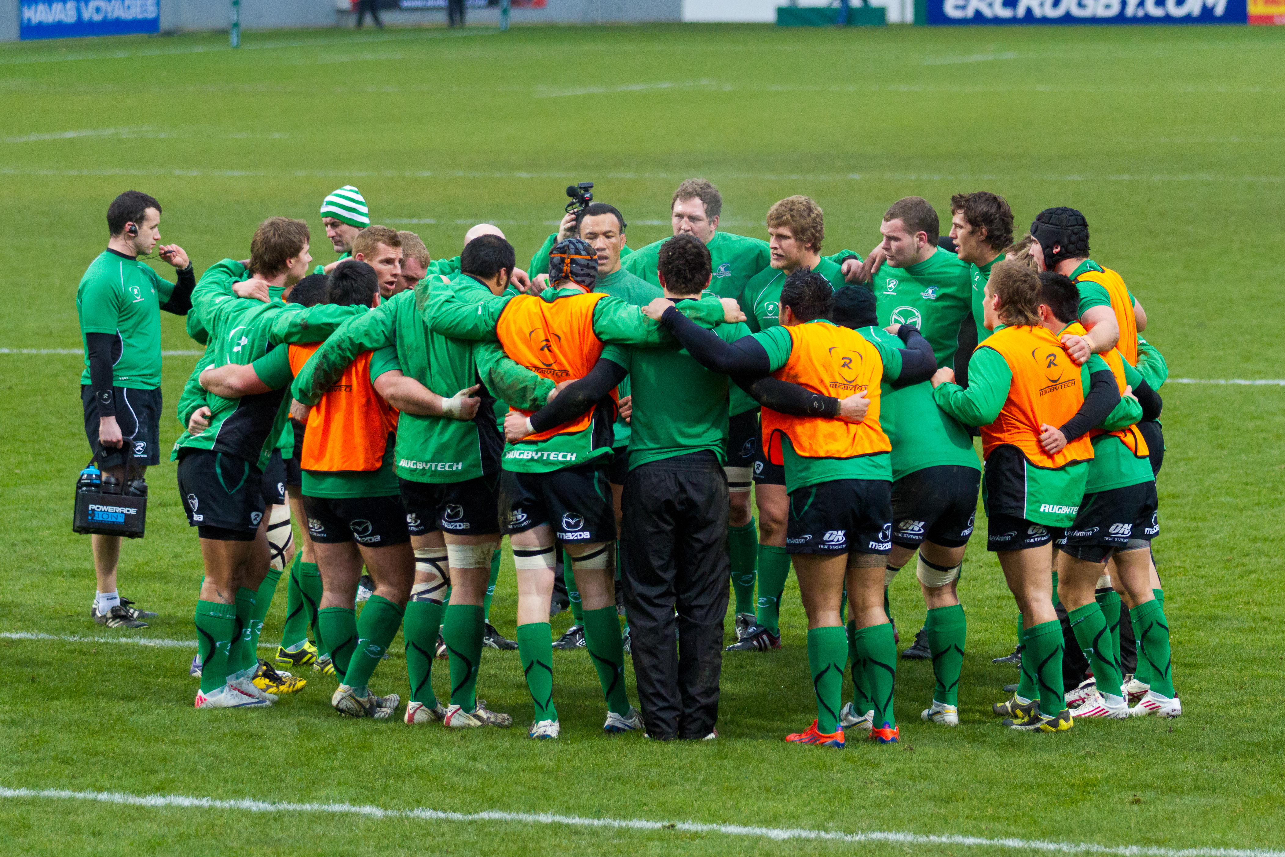 Heineken Cup 2011-2012 — 14 January 2012, Stade Ernest-Wallon. Match between: Stade toulousain — Connacht Rugby